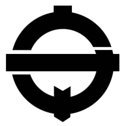 Moriya Ibaraki chapter